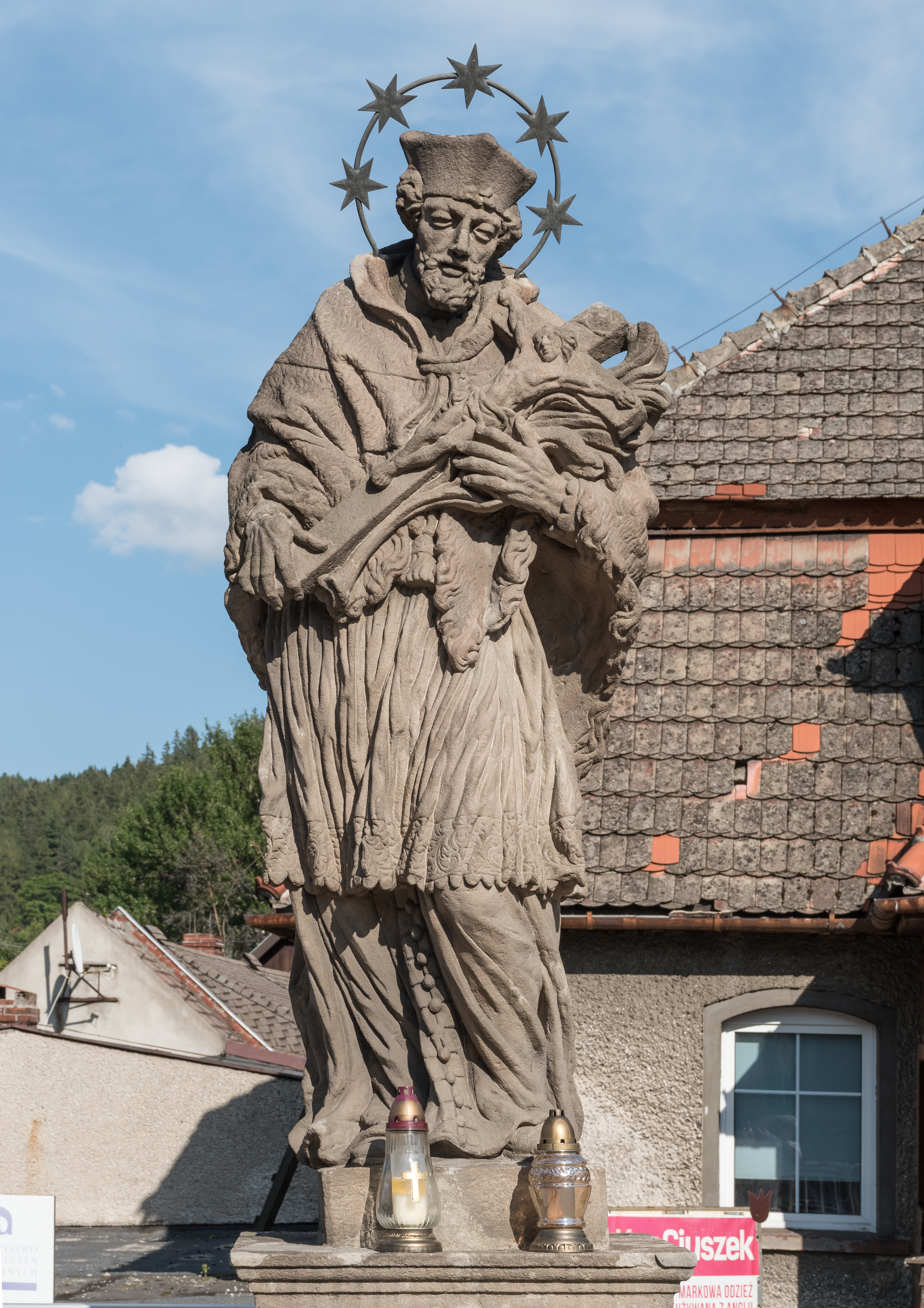 John of Nepomuk sculpture in Szczytna